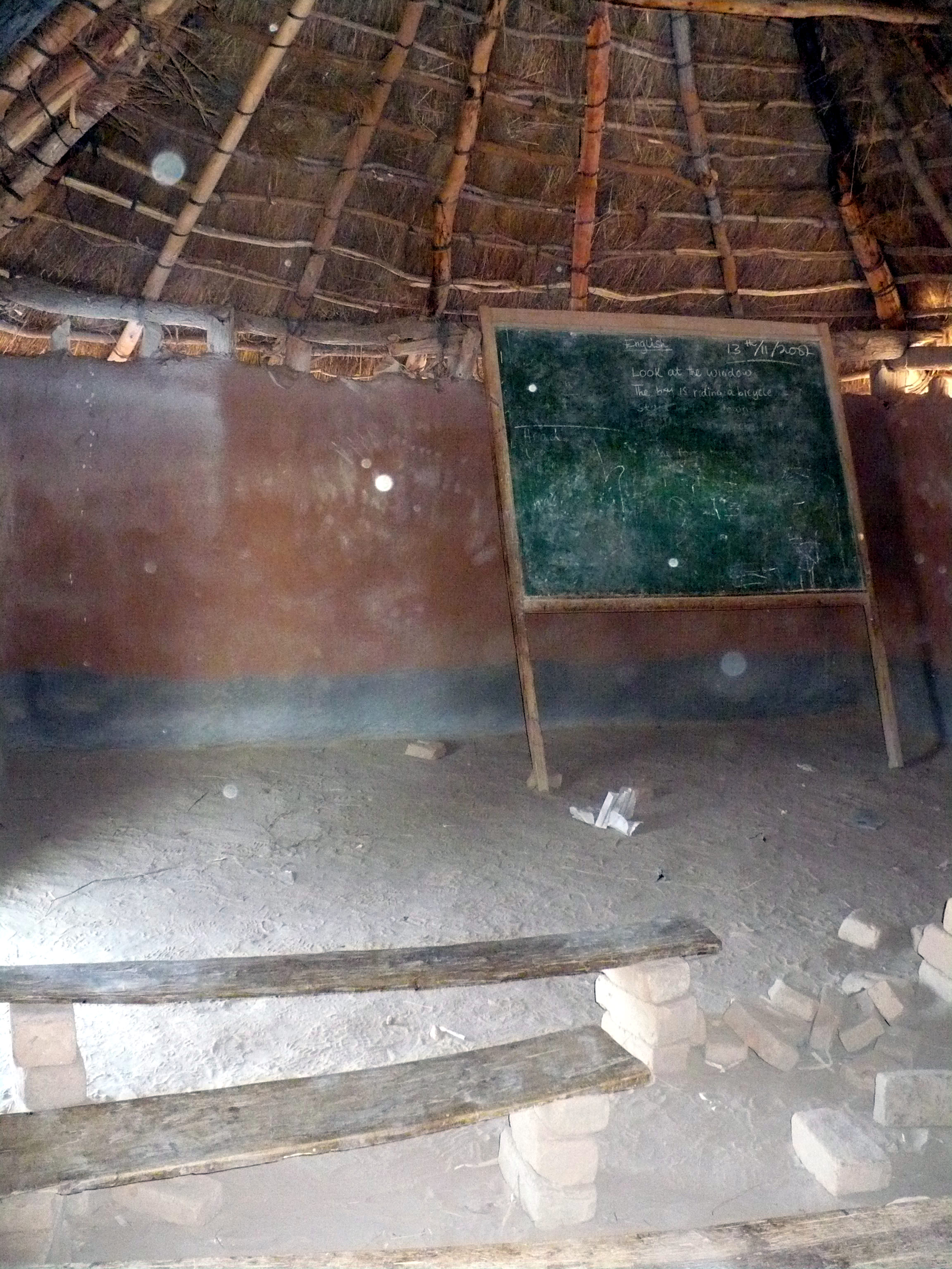 inside of a Zambian school in a rural area near Livingstone. The room welcome kids from grade 1 to 5 and include sitting room and blackboard (english text on it)